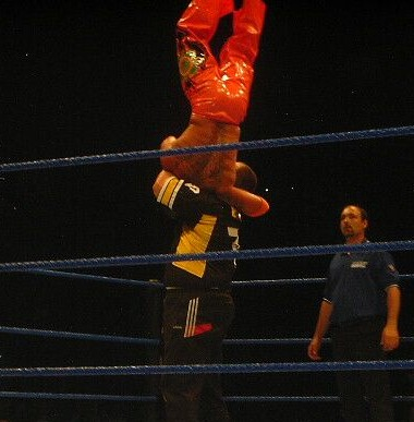 Rey Mysterio on WWE Passport To Pain Tour in Milan (Italy)